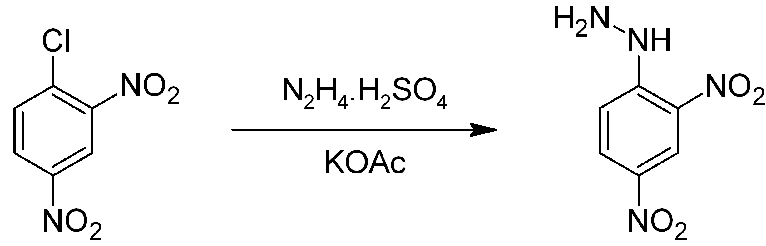 Preparation of 2,4-dinitrophenylhydrazine